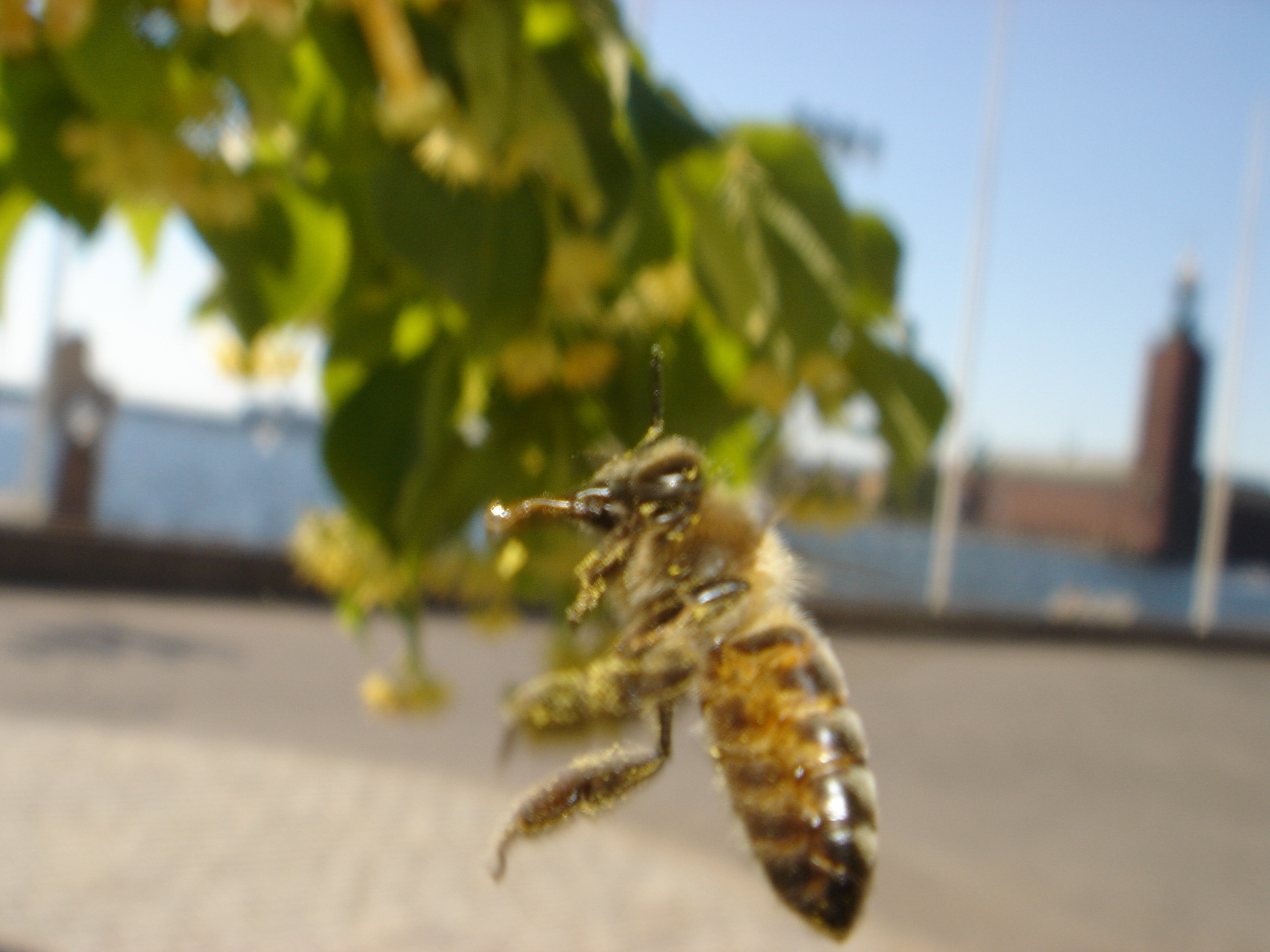 flying bee in stockholm picture taken by georg tanner